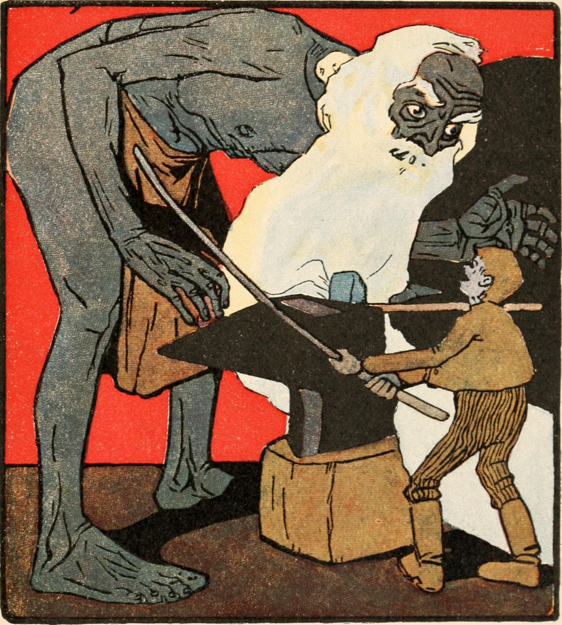 Title: Kinder- und Year: 1910 (1910s) Authors: Grimm, Jacob, 1785-1863 Grimm, Wilhelm, 1786-1859 Weisgerber, Albert, 1878-1915, ill Subjects: Fairy tales Folklore -- Germany Publisher: Wien : M. Gerlach Text Appearing Before Image: nod) bejjer, jprad) ber 3unge unb gieng 3U bem anbernHmbo^; ber Hlte jtellte jid) neben l)in unb roollte 3ujel)en, unb jeinroeißer Bart l)ieng t)erab. Da fajste ber 3unge bie Hjt, jpaltete benHmbo^ auf einen ^ieb unb Hemmte ben Bart bes Hlten mit l)inein.„nunl)abid) bid), jprad) ber3unge, „je^t ijt bas Sterben an bir.Dann fajste er eine (Eijenjtange unb jd)lug auf ben Hlten los, bis erroimmerte unb hat, er möd)te aufl)ören, er roollte il)m grogeHeid)=tl)ümer geben. Der 3unge 30g bie Hjt raus, unb ließ it)n los. Der 42 Text Appearing After Image: 43 HIte füt)rte tl)n toieöer ins $d)Iojs 3urü(f unö 3etgte tl)m in einemKeller örei Haften üoIICBoIÖ. „Davon, jprad) er, „ijt ein 0;!)eil benHrmen, öer anbere bem Könige, ber britte bein. 3nbem fd)Iug es3roöIfe, unb ber (5ei(t Derjd^roanb, aljo ba(s ber 3unge im Sinftern)tanb. „3d) roerbe mir bod) l)erausl)elfen lönnen, jprad) er, tappteI)erum, fanb ben IDeg in bie Kammer unb fd)Iief bort bei feinem5euer ein. Hm anbern Hlorgen !am ber König unb fagte: „Tlun loirftbu gelernt Ijaben, toas (Brujelnift? — „Hein, antwortete er, „roasifts nur? ITTein tobter Detter mar ba, unb ein bärtiger Vilann ift ge=!ommen, ber l)at mir ba unten Diel (Selb ge3eigt, aber toas (Brufelnift, t)at mir feiner gefagt. Da fprad) ber König: „Du Ijaft bas$d)Iofs erlöst unb follft meine (Iod)ter I)eiraten/ — „Das ift allred)t gut, anttoortete er, „aber id) roeig nod) immer md)t, toas(Brufeln ift. ::::::::: \\\\\\\^-.\\\\\\\\\-:^\^^-.:.:.:.-.-.:::.-.-.-:.:;.:.-.:..